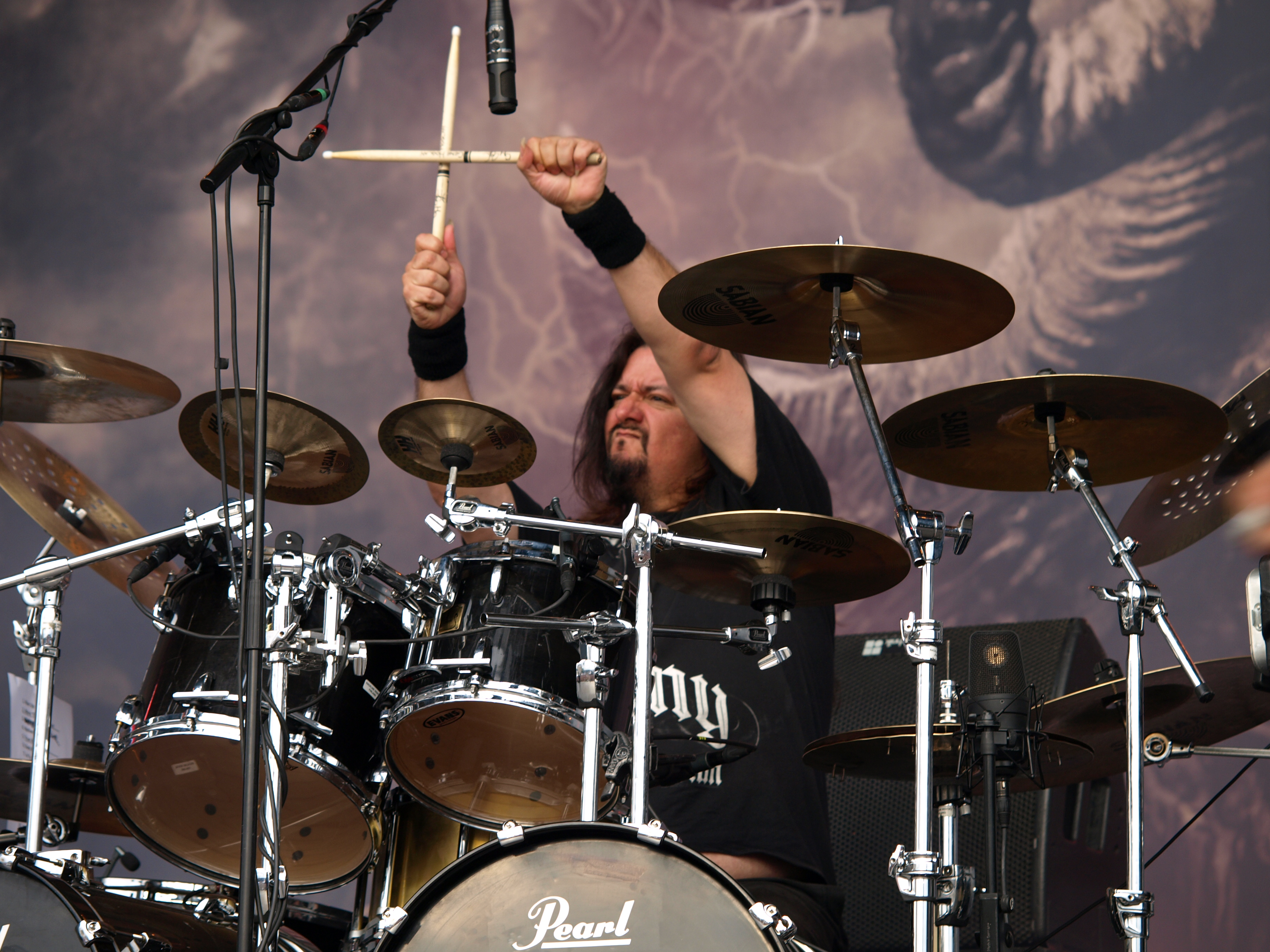 US-American thrash metal band Testament live at Tuska Open Air 2013